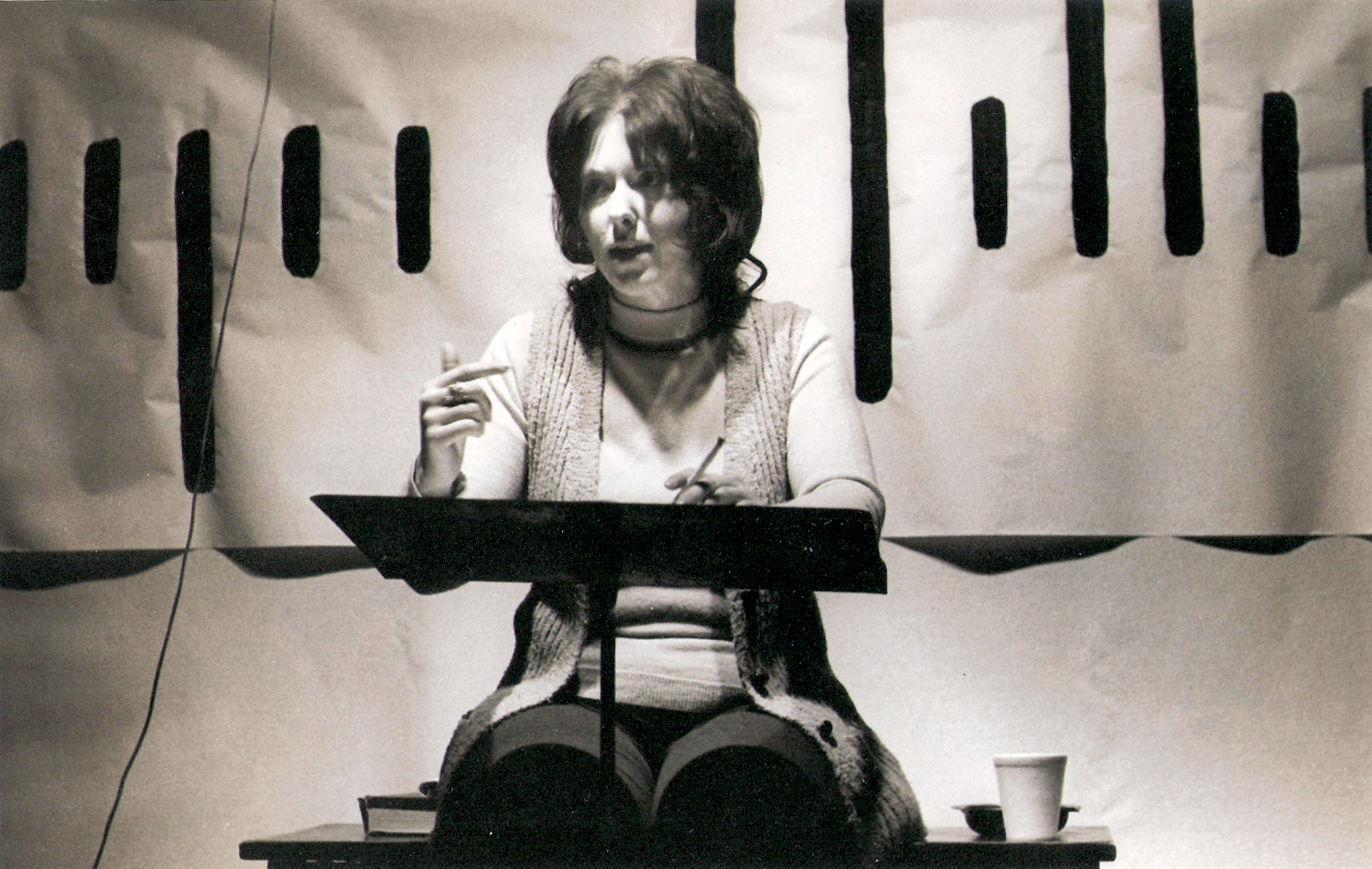 Joyce Holland Reading